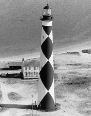 U.S. Coast Guard Archive Photo of Cape Lookout Lighthouse, Outer Banks, North Carolina